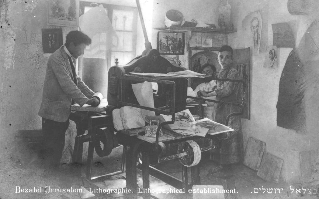 Photograph